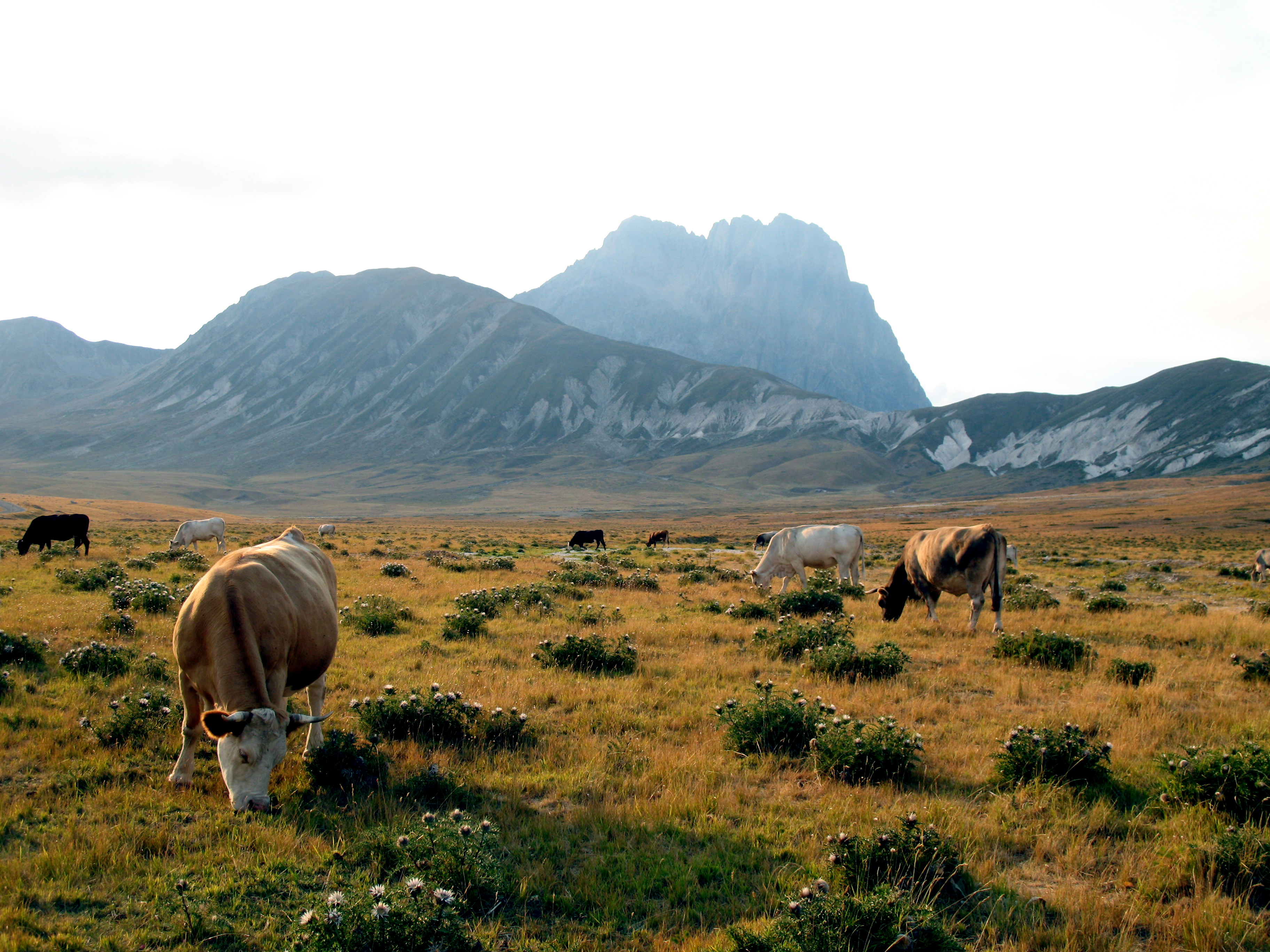 Cows grazing beneath Corno Grande on Campo Imperatore by Miles Gerety CC ShareAlike 2.5